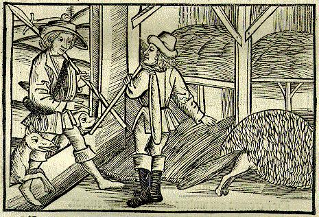 The fable of the Fox and the Woodman from Sebastian Brant's Esopi appologi siue mythologi (Basle 1501)